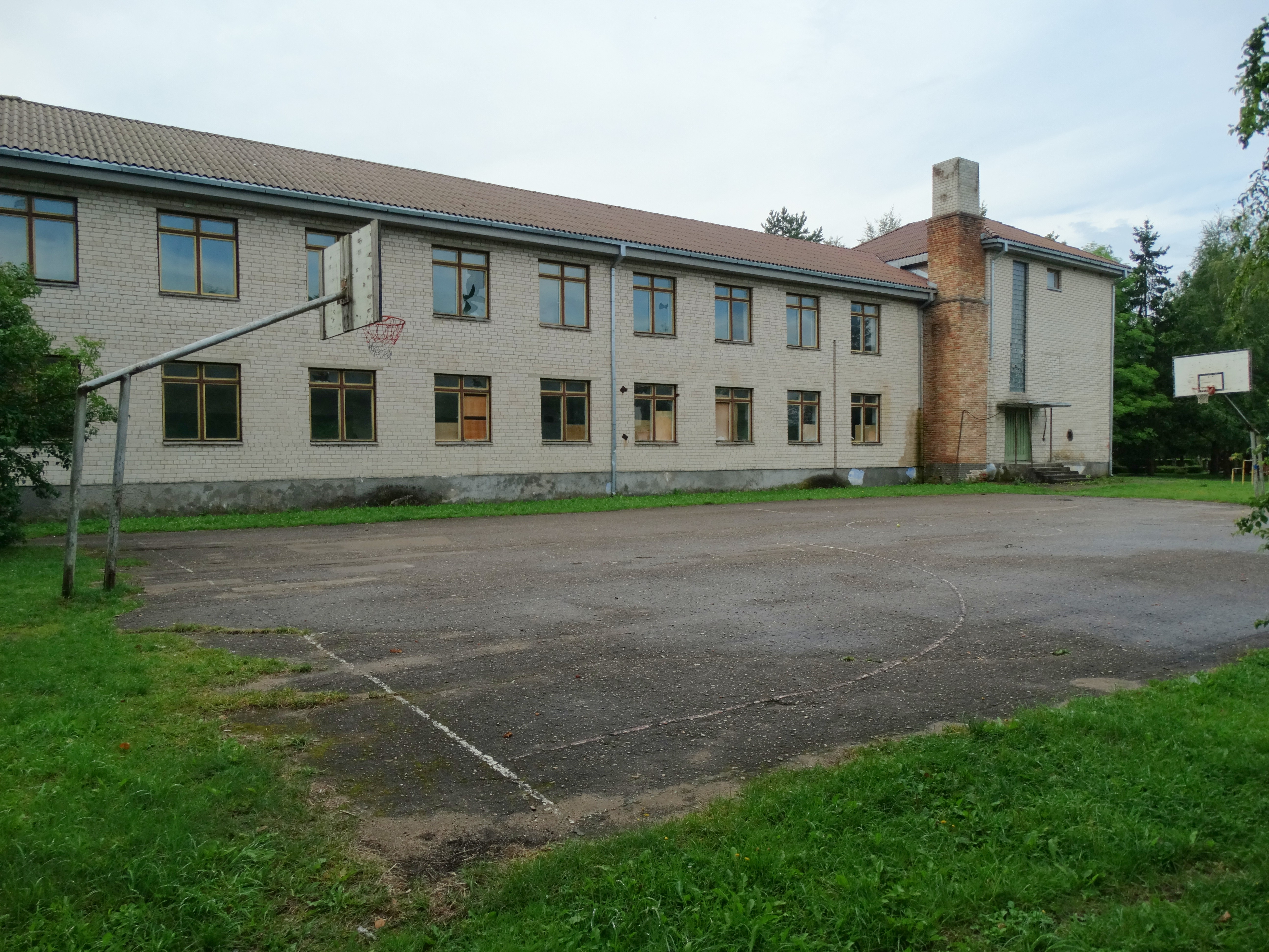 Sablauskiai, school, Akmenė district, Lithuania